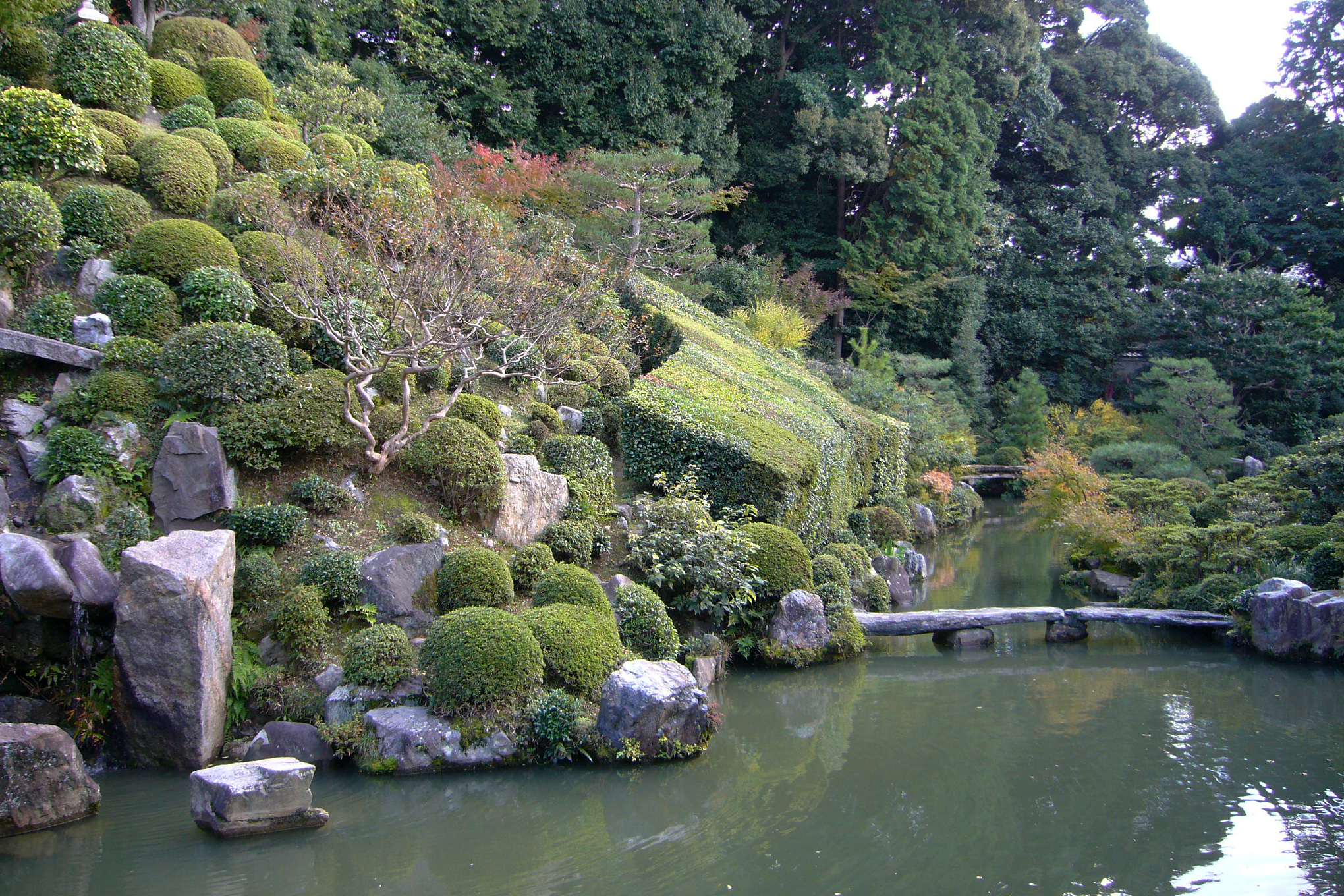 Chishakuin, Kyoto, Kyoto Prefecture, Japan